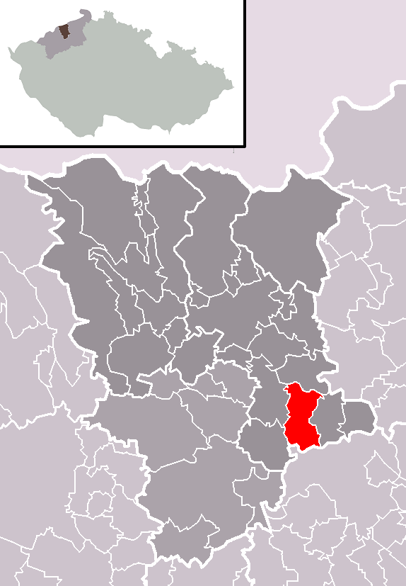 Location of Žalany municipality within Teplice District and administrative area of Teplice as a Municipality with Extended Competence.